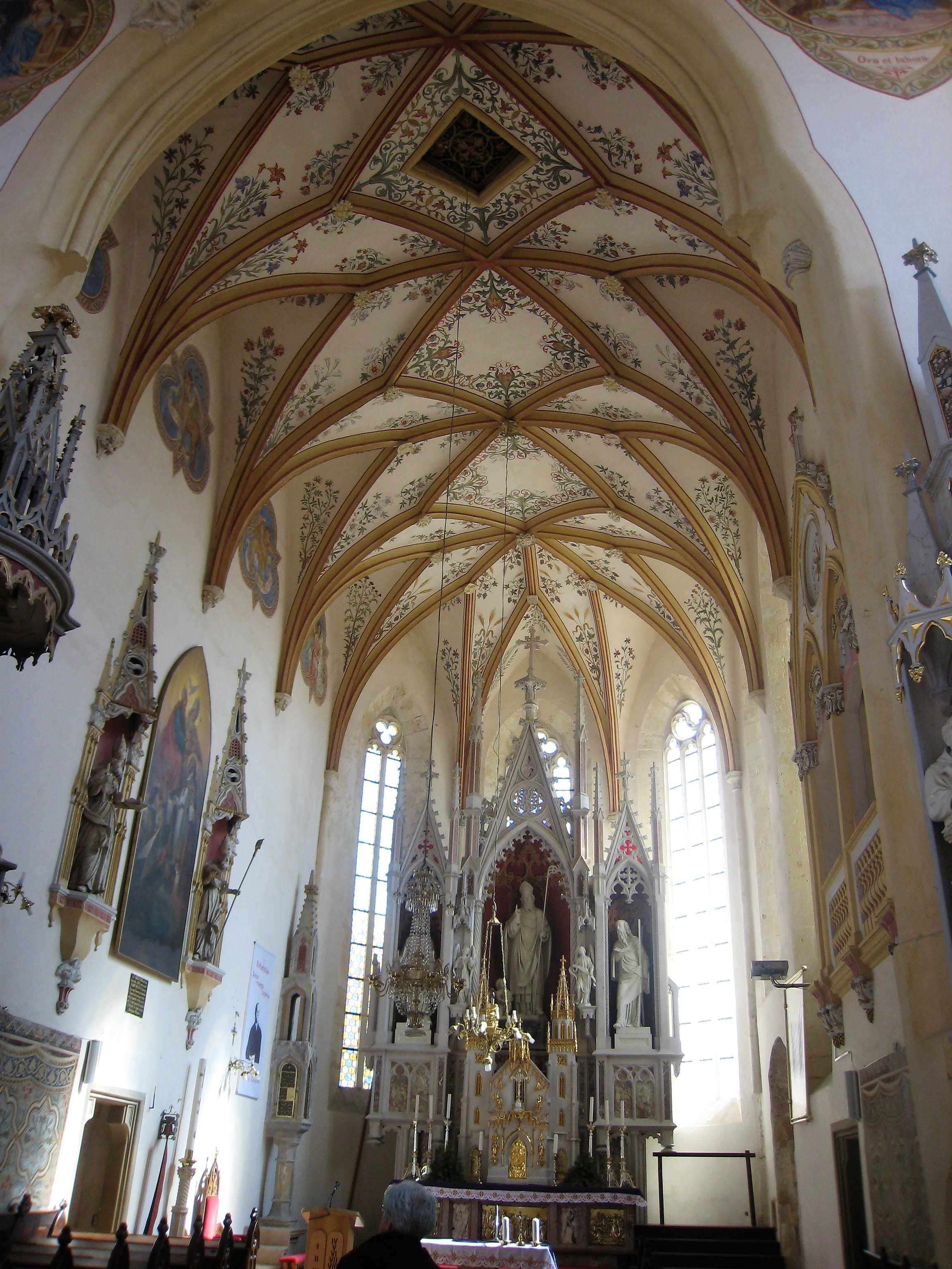 The structure of the stellar wault is well seen